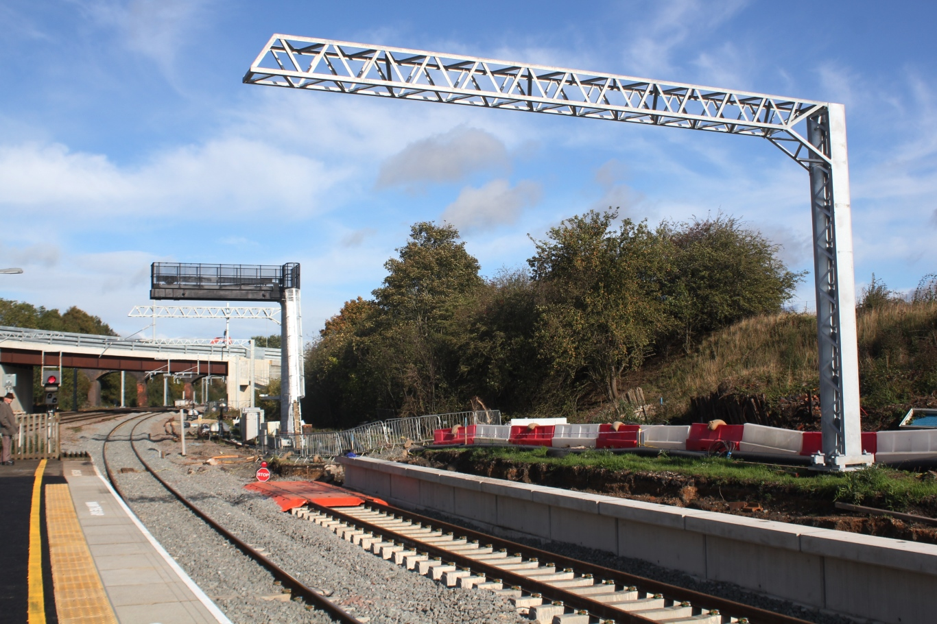 The Up Slow line through Wellngborough was lifted in the 1980s but is being reinstated as part of the scheme to introduce more frequent electric services on the London St Pancras to Corby route.